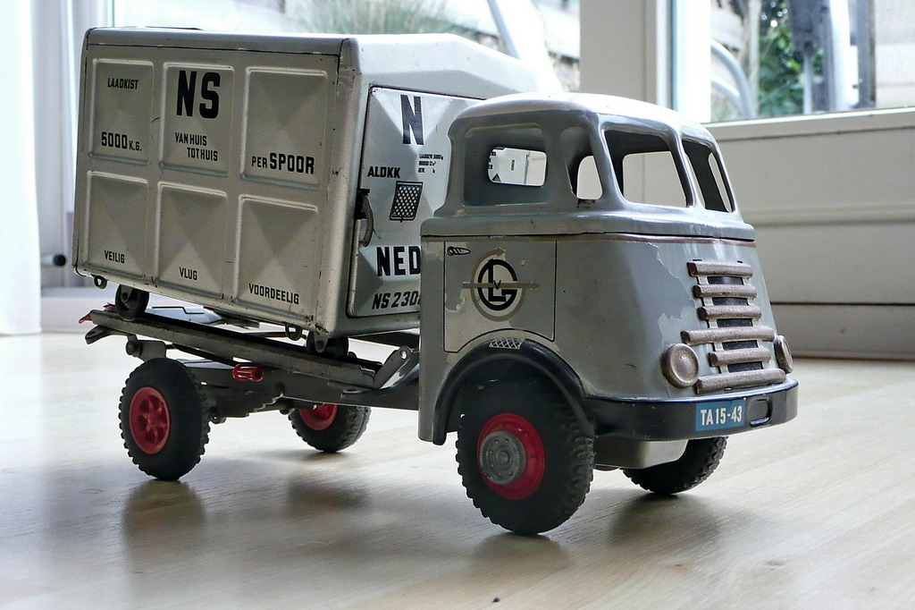 Model of a truck of Van Gend en Loos a former Dutch firm. The car was made by DAF.